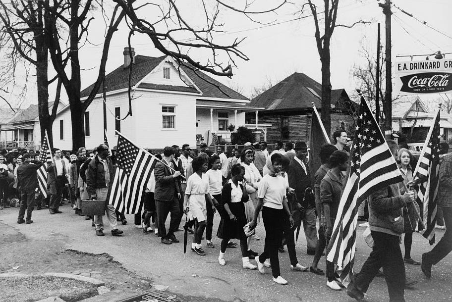 Participants, some carrying American flags, marching in the civil rights march from Selma to Montgomery, Alabama in 1965